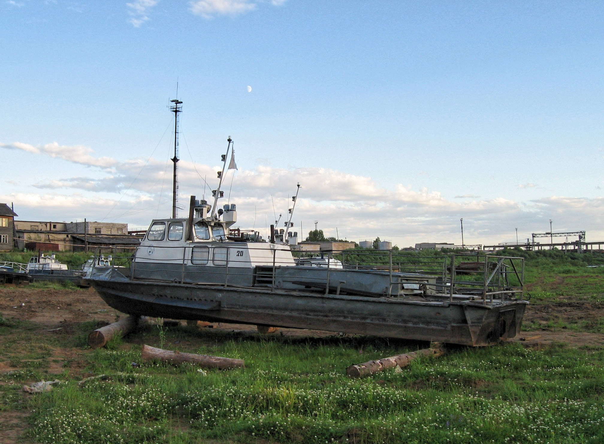 Cutter ks100